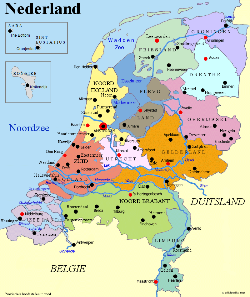 The red dots are the capitals of the provinces. The capital of the Netherlands, Amsterdam, has a red/black dot. The rest are the bigger cities.